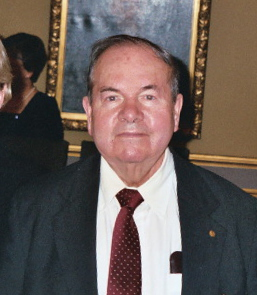 Alexei Alexeyevich Abrikosov (Russian: Алексе́й Алексе́евич Абрико́сов; born June 25, 1928)